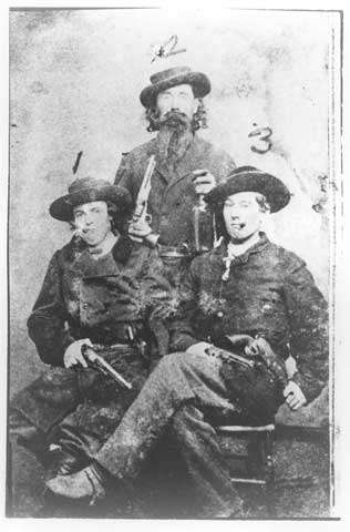 Three Bushwhackers ca. 1864, showing Dave Pool (#2)